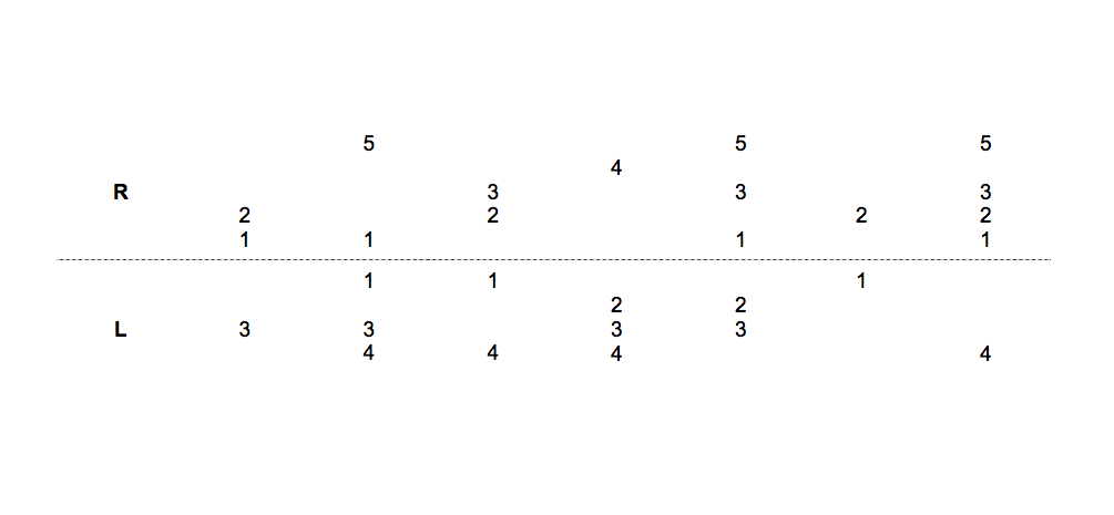 Excerpt from Taylan Susam's "for louis couperin"